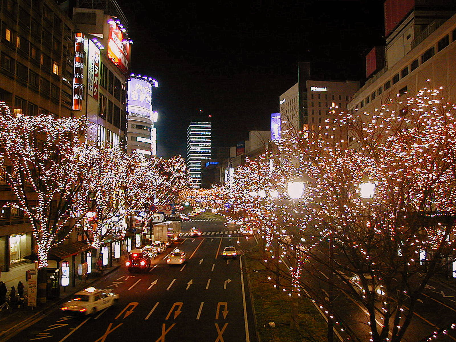 SENDAI Pageant of Starlight in Aoba-dori avenue viewed from a pedway in front of Sendai station west exit